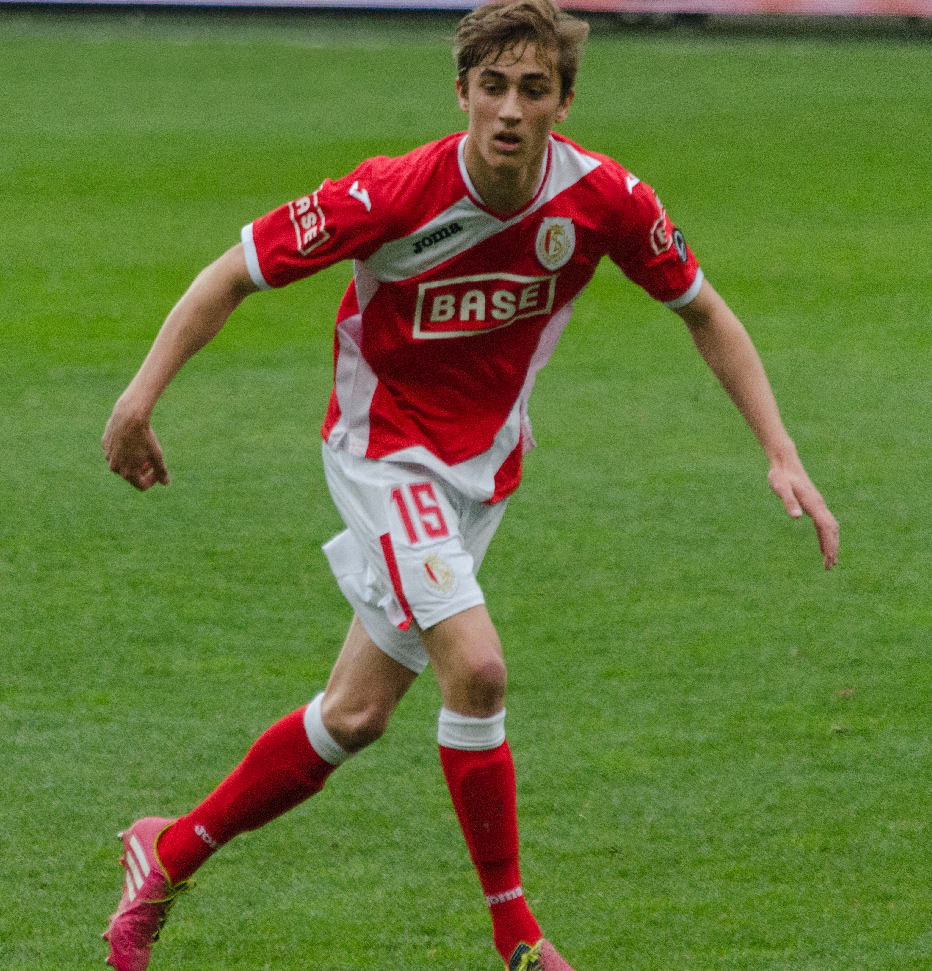 Julien De Sart playing for Standard Liege in 2015